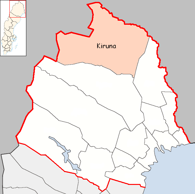 Kiruna Municipality in Norrbotten County Designed by me. Mere outlines are a PD source from